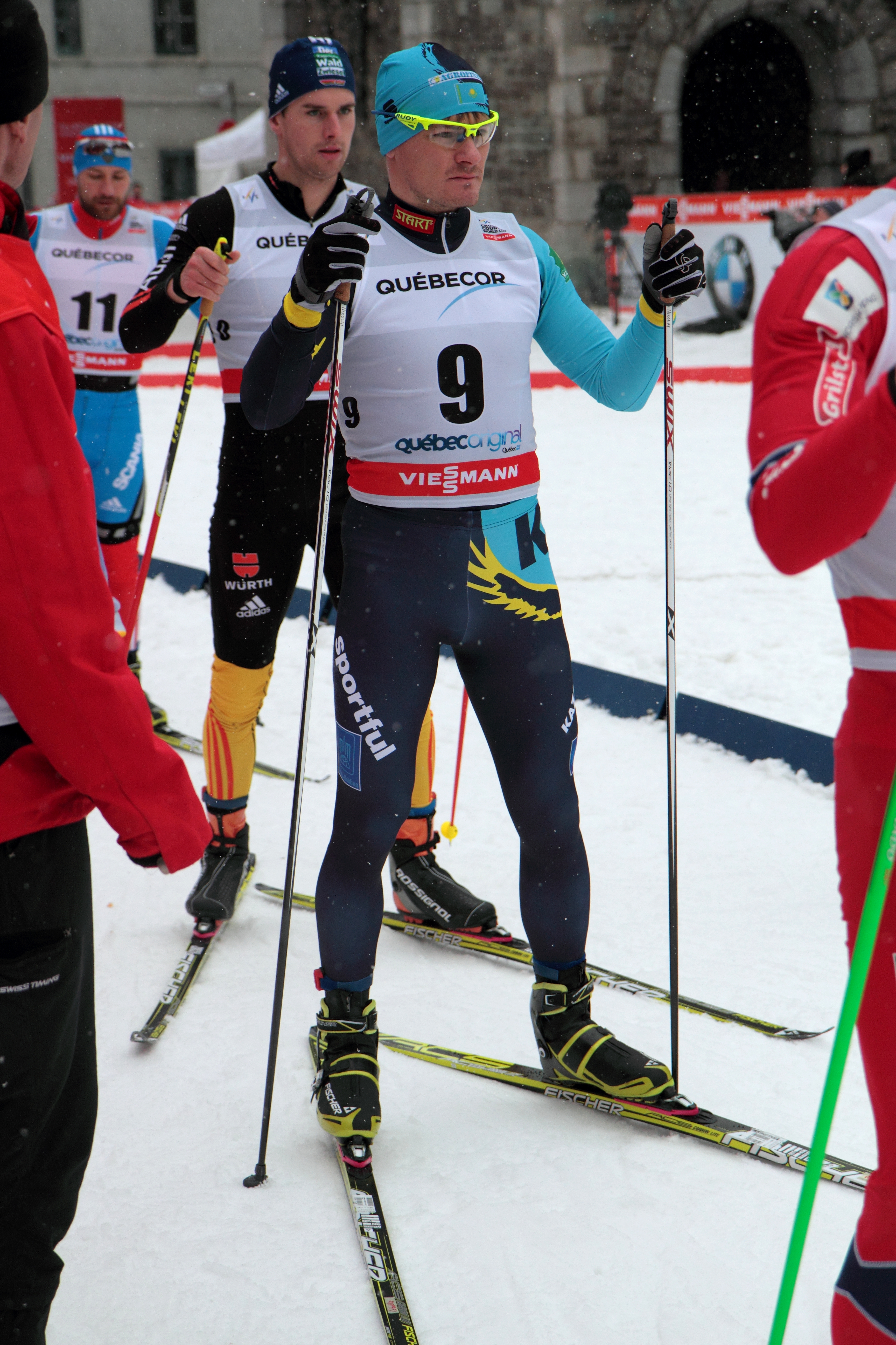 Nikolay Chebotko, FIS Cross-Country World Cup 2012, Quebec, Canada.